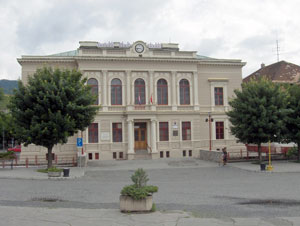 City hall in Dobšiná, Slovakia